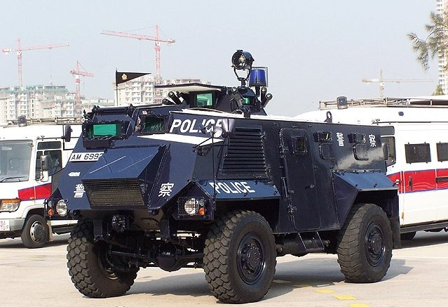 GKN Saxon AT105 APC in use by Hong Kong Police.